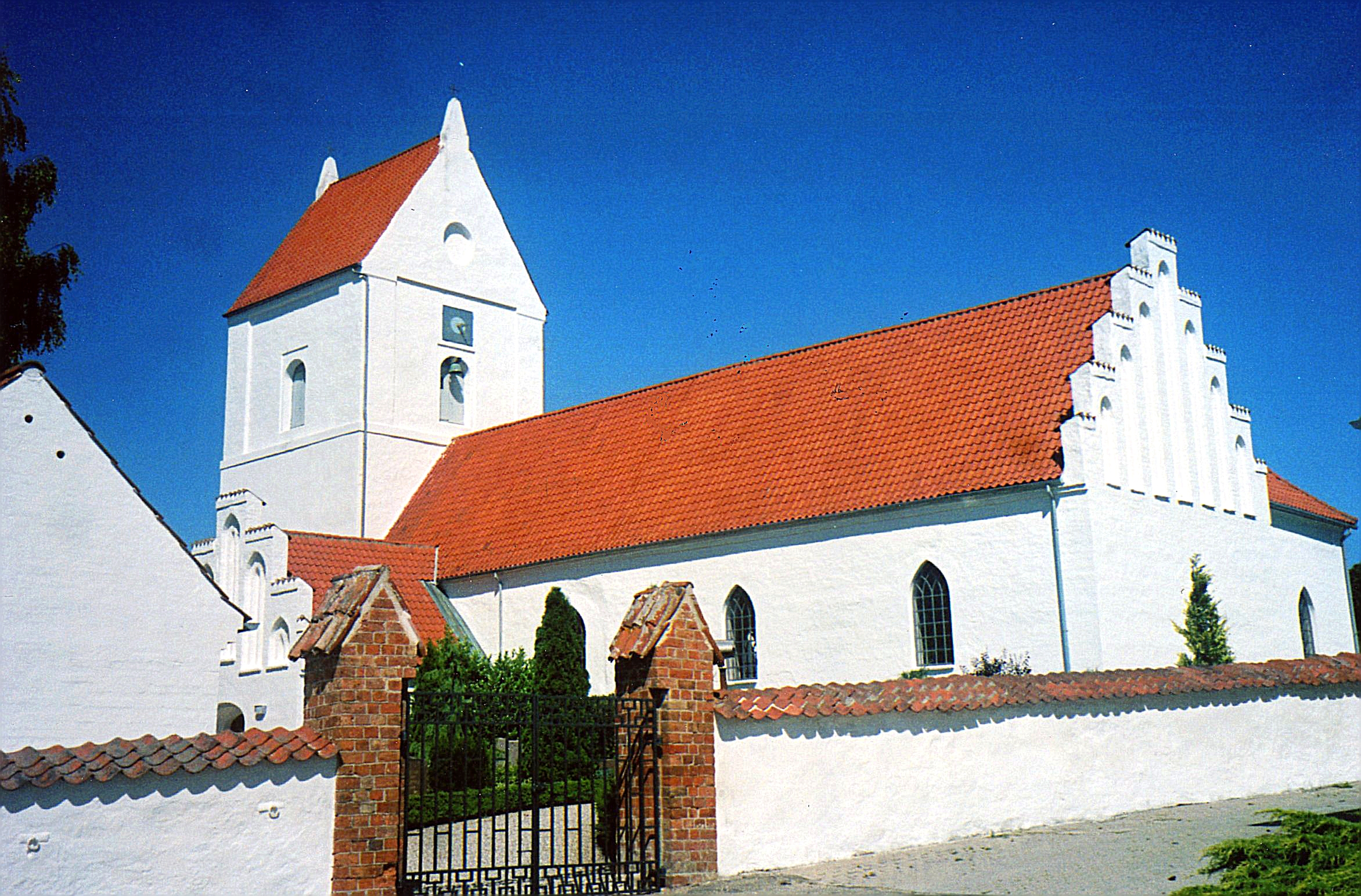 Hellested Kirke, Hellested, Stevns Kommune